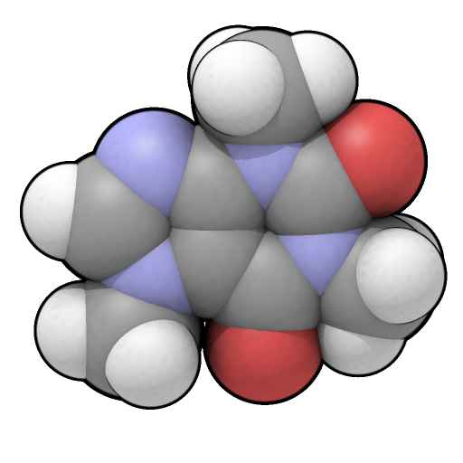 3D Caffeine Molecule